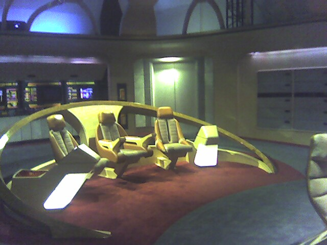 Star Trek Exhibit at Queen Mary Spruce Goose Dome, Long Beach Ca, Feb 2008